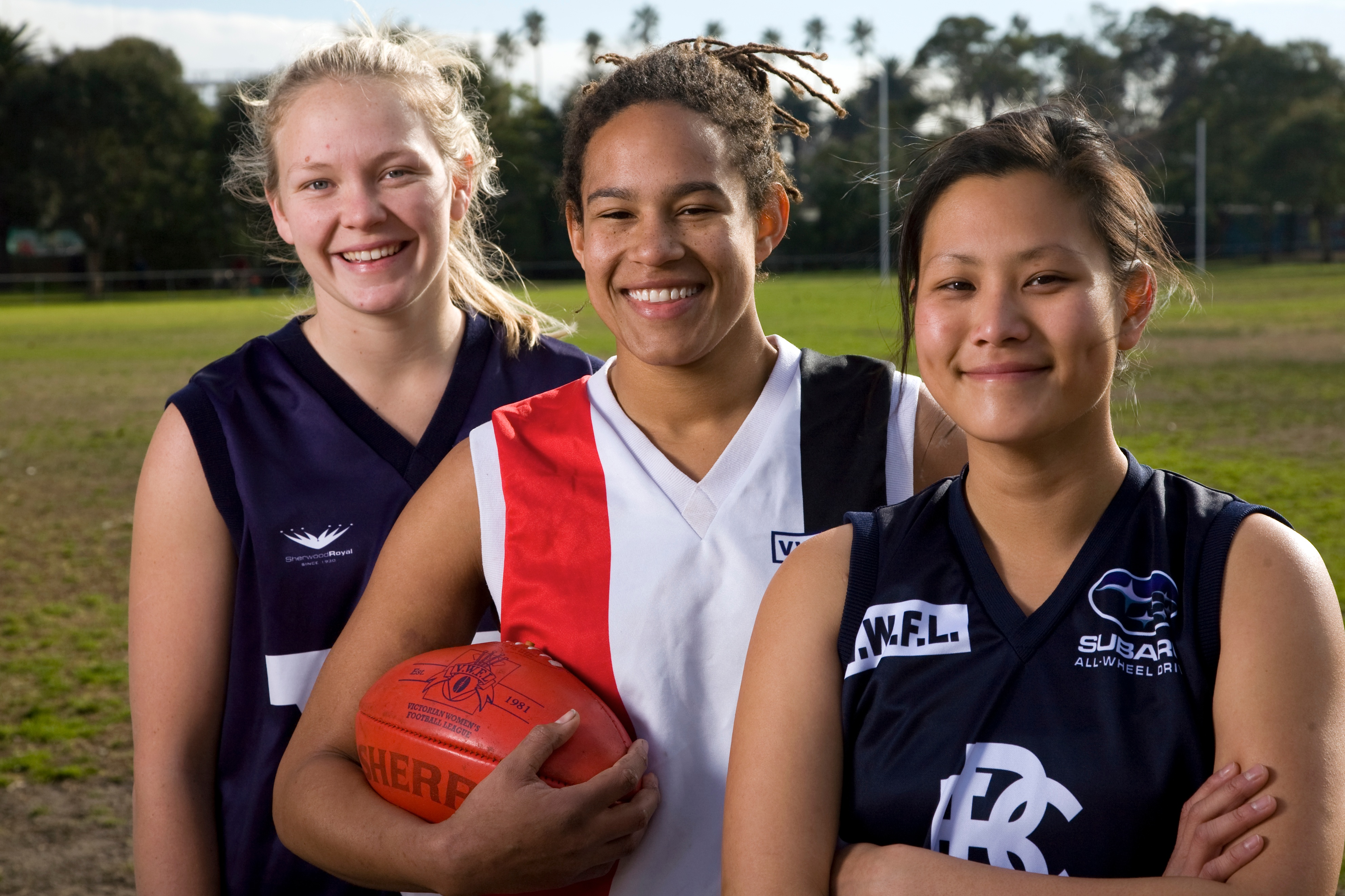 Football players Avril Chow, Phoebe McWilliams and Rachael Achampong.